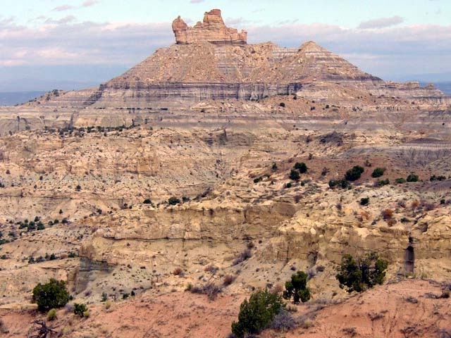 Angel Peak (elevation 6,988 feet), high point in the BLM Angel Peak Scenic Area